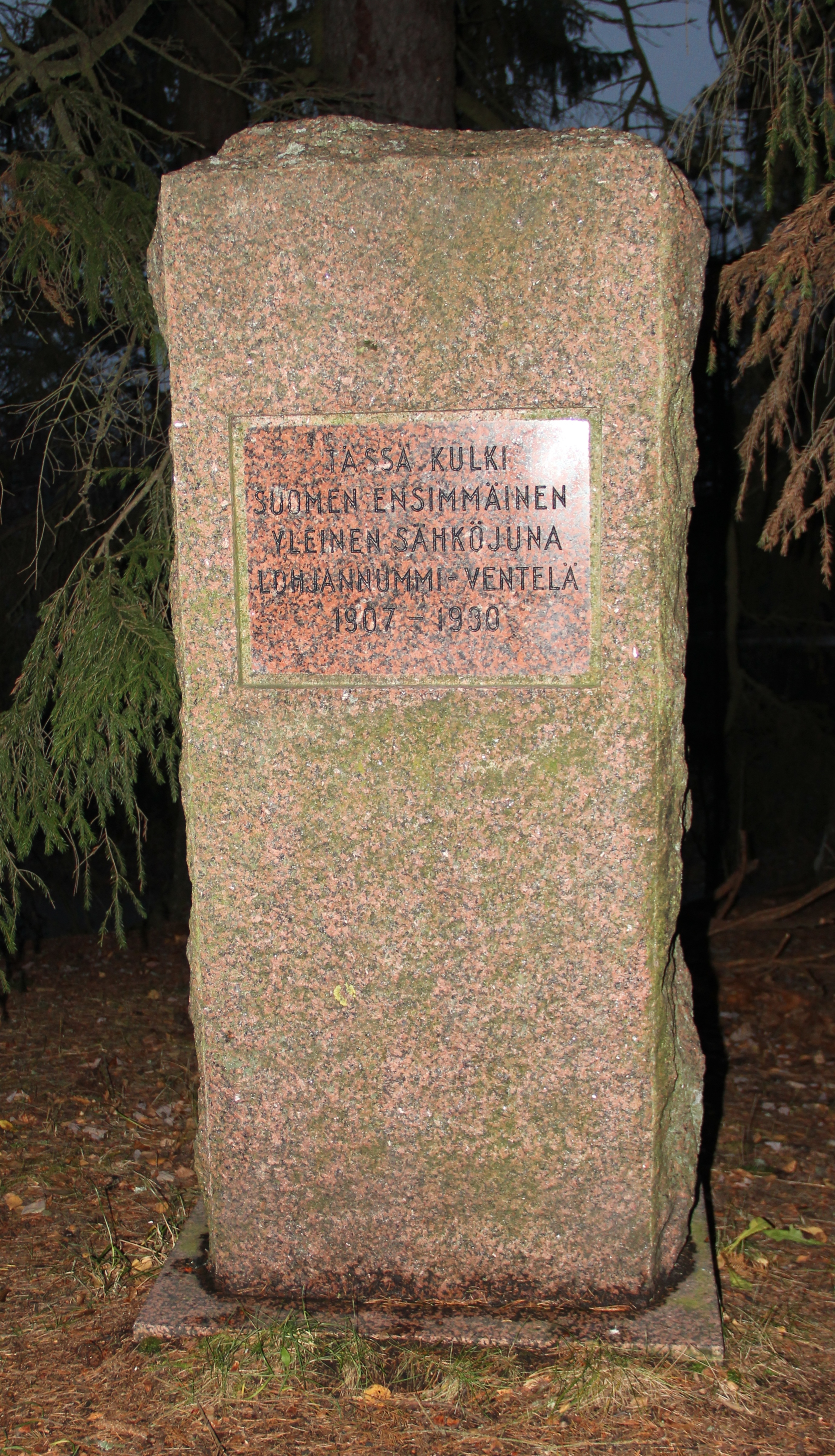 First electric railway in Finland, Memorial in Lohja, Finland. Material: Vehmaa red granite. Unveiled 1987.